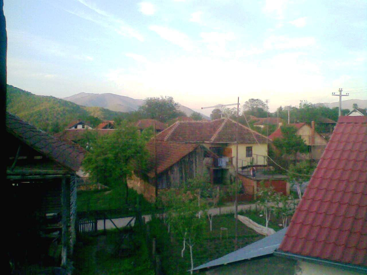 village of Staroec, municipality Vraneshtica, near Kichevo, Macedonia